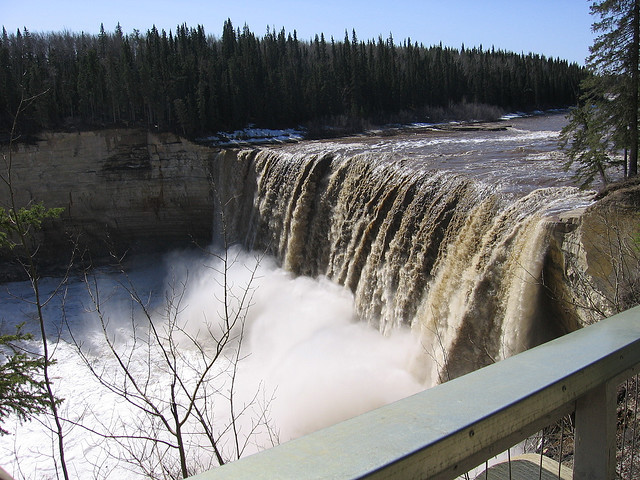 Alexandra Falls in April